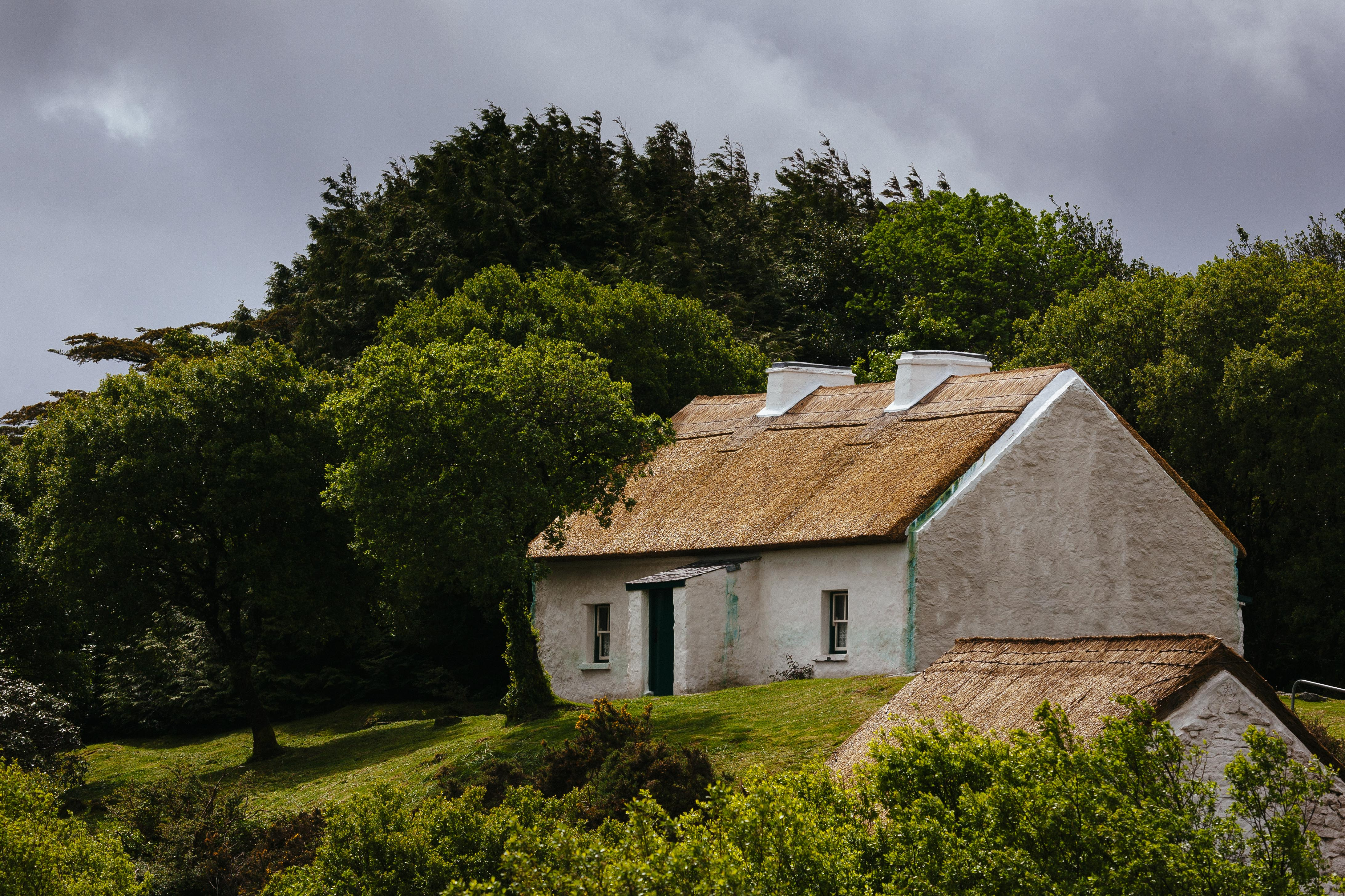 I took this during our annual camera club trip, which in 2014 was to Connemara. It was such a peaceful spot.